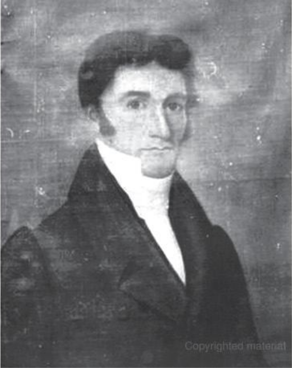 William Weller sat for this portrait, by Paul Kane, in 1835